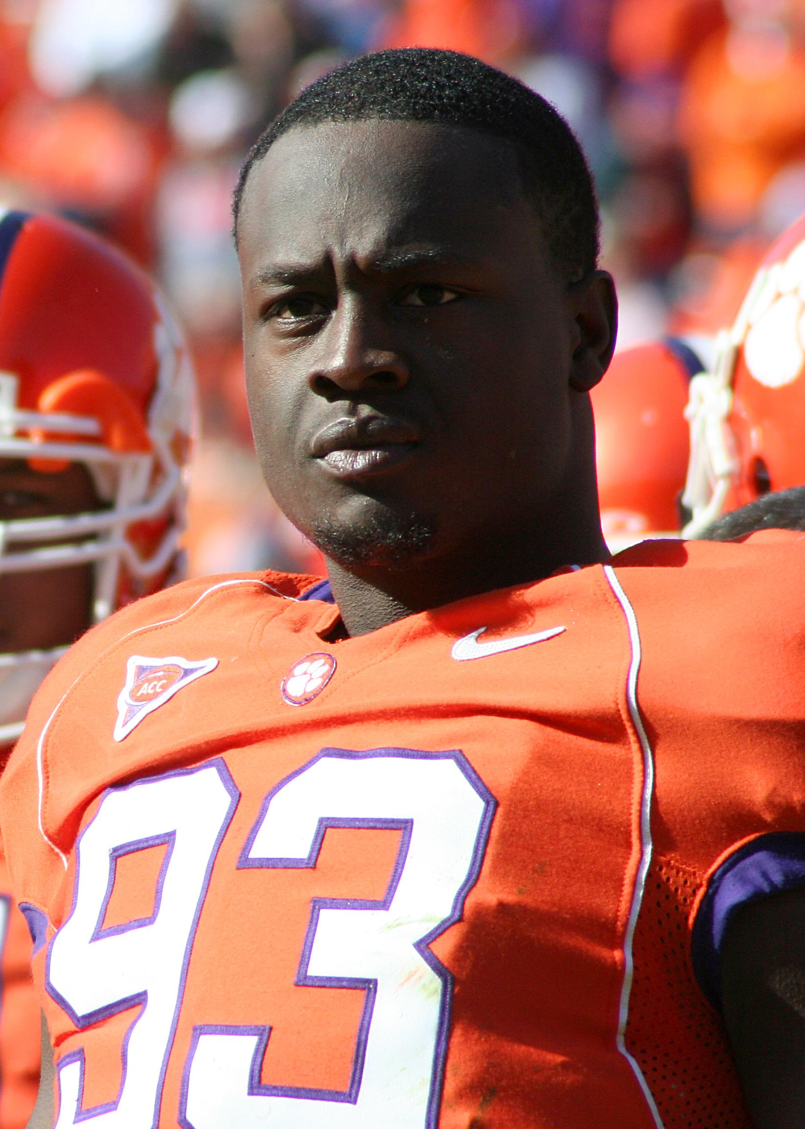 Gaines Adams of Clemson University football team